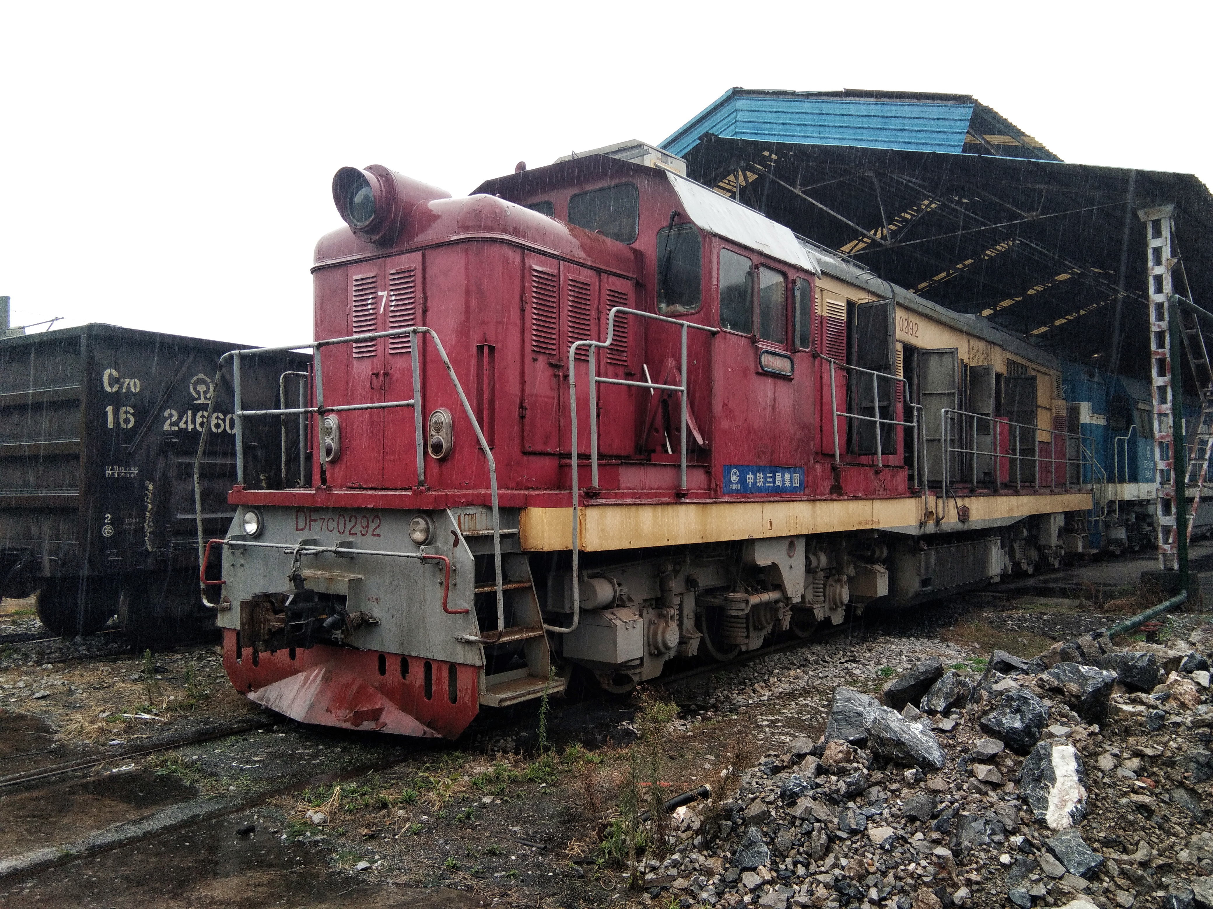 DF7-0292 based in China Railway No.3 Engineering Group. This locomotive is mislabeled as a DF7C.